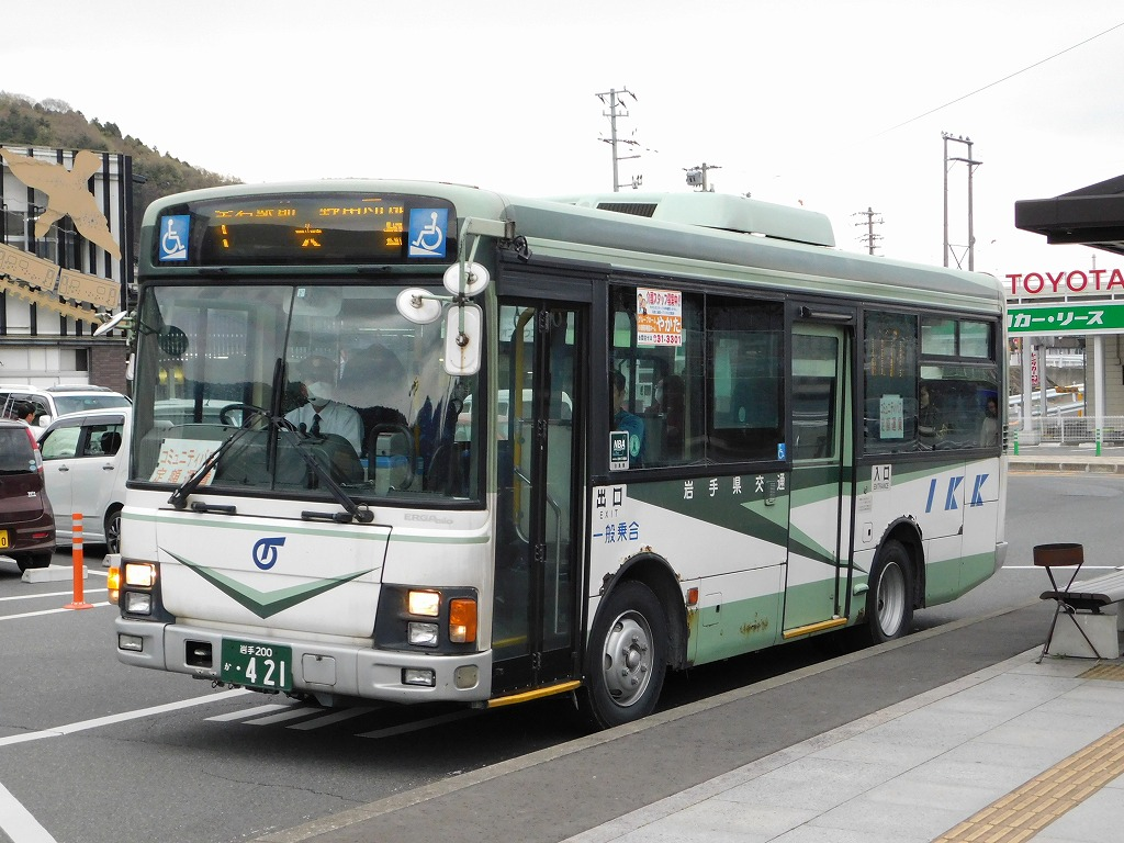 Iwateken kotsu Isuzu Erga Mio (KK-LR233F1)